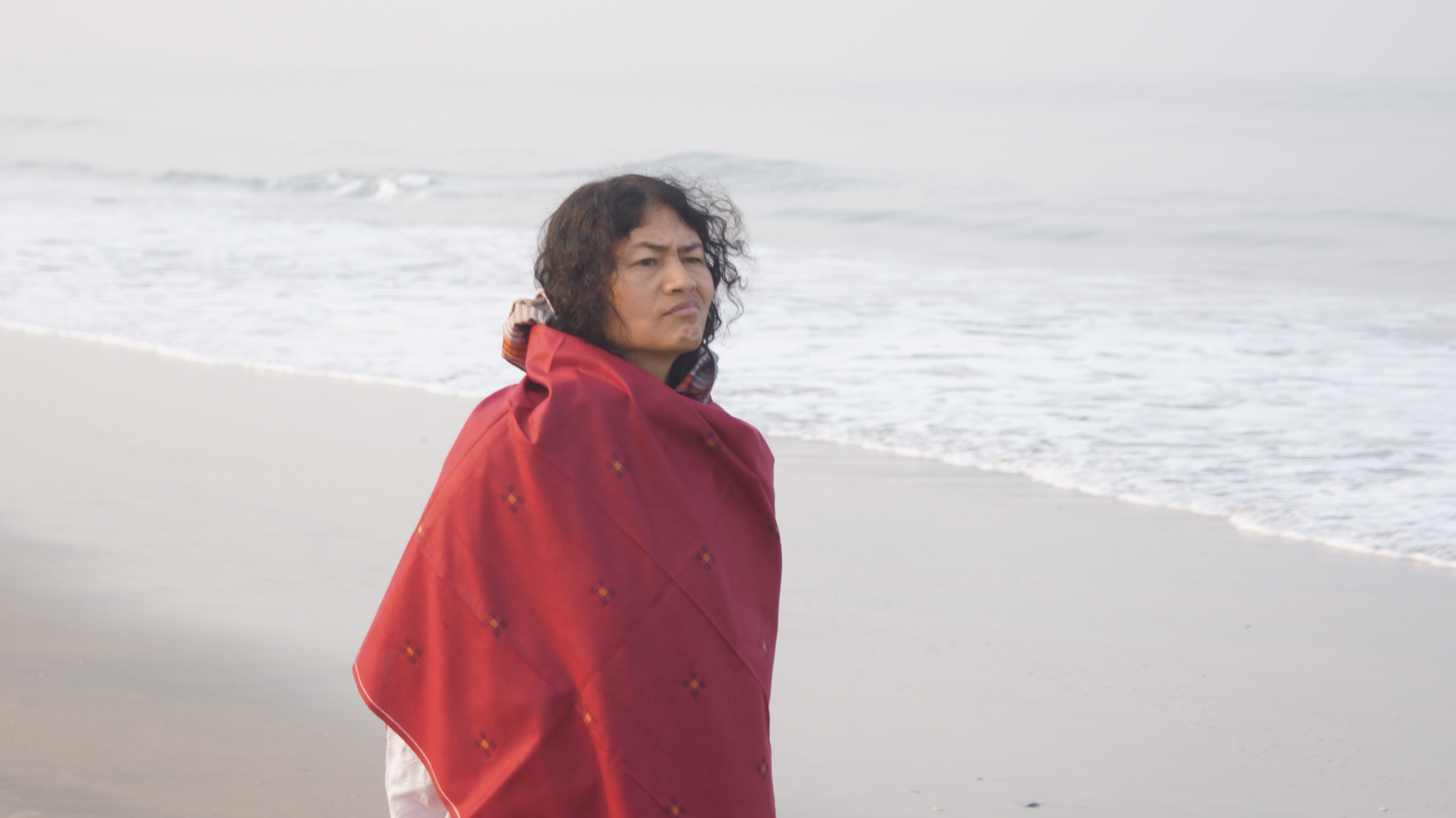 an activist